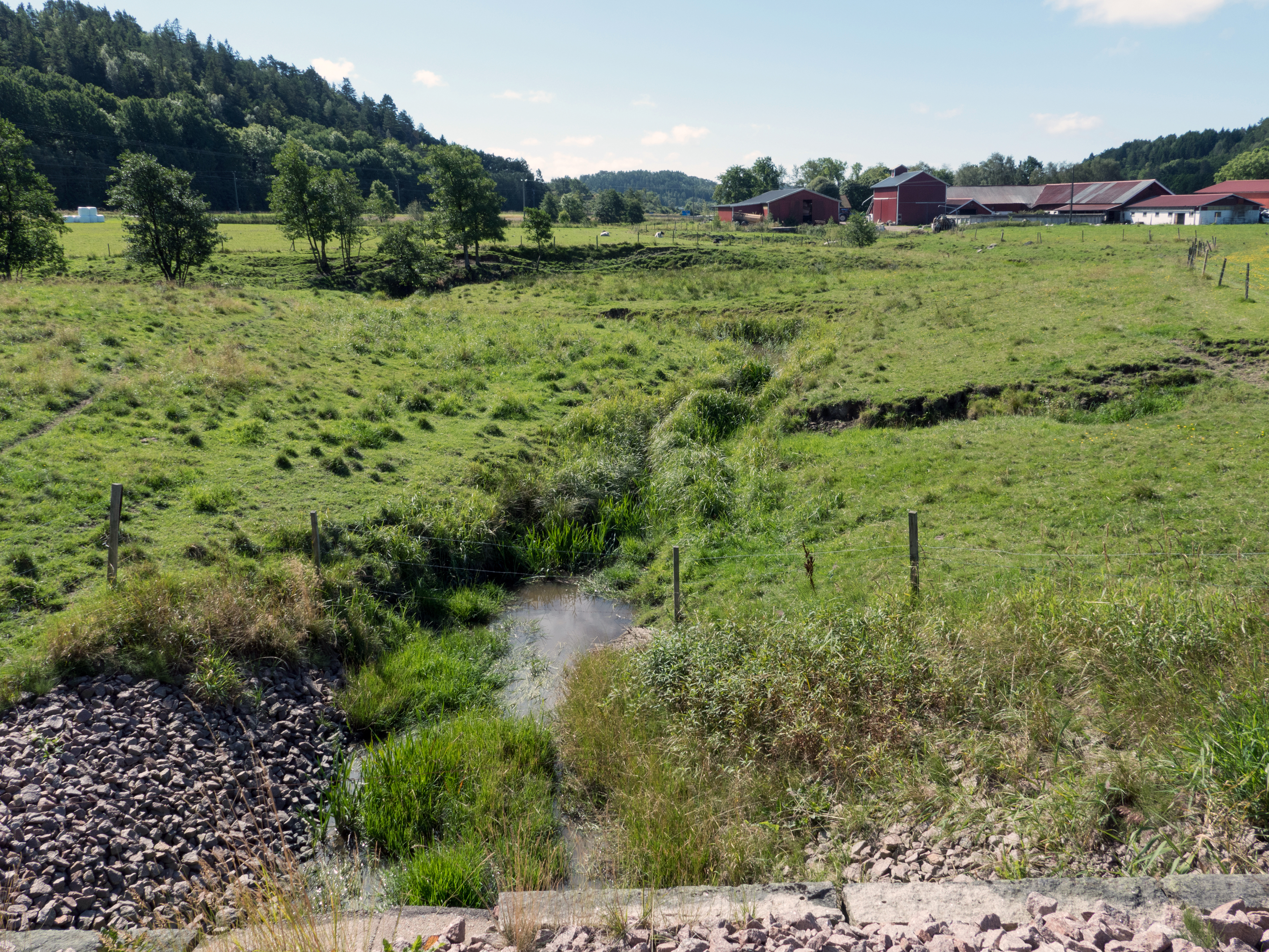 Broälven nature reserve just north of Bro Church in Lysekil Municipality, Sweden.